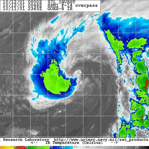 Precursor extratropical storm that later became Hurricane Karen while passing near Bermuda in October 2001